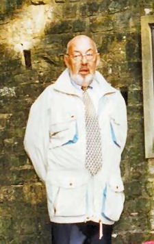 Charly Gaul in 1998 (in front of the memorial François and Nicolas Frantz)